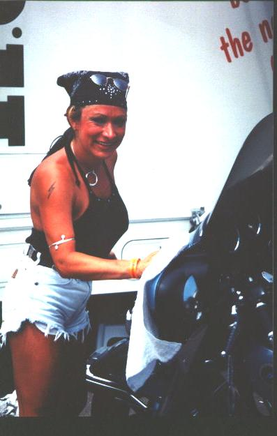 Nena Cherry from (specifically ) copyright per User:Tabercil/Luke Ford permission. AnonEMouse (squeak) 01:28, 29 July 2006 (UTC)